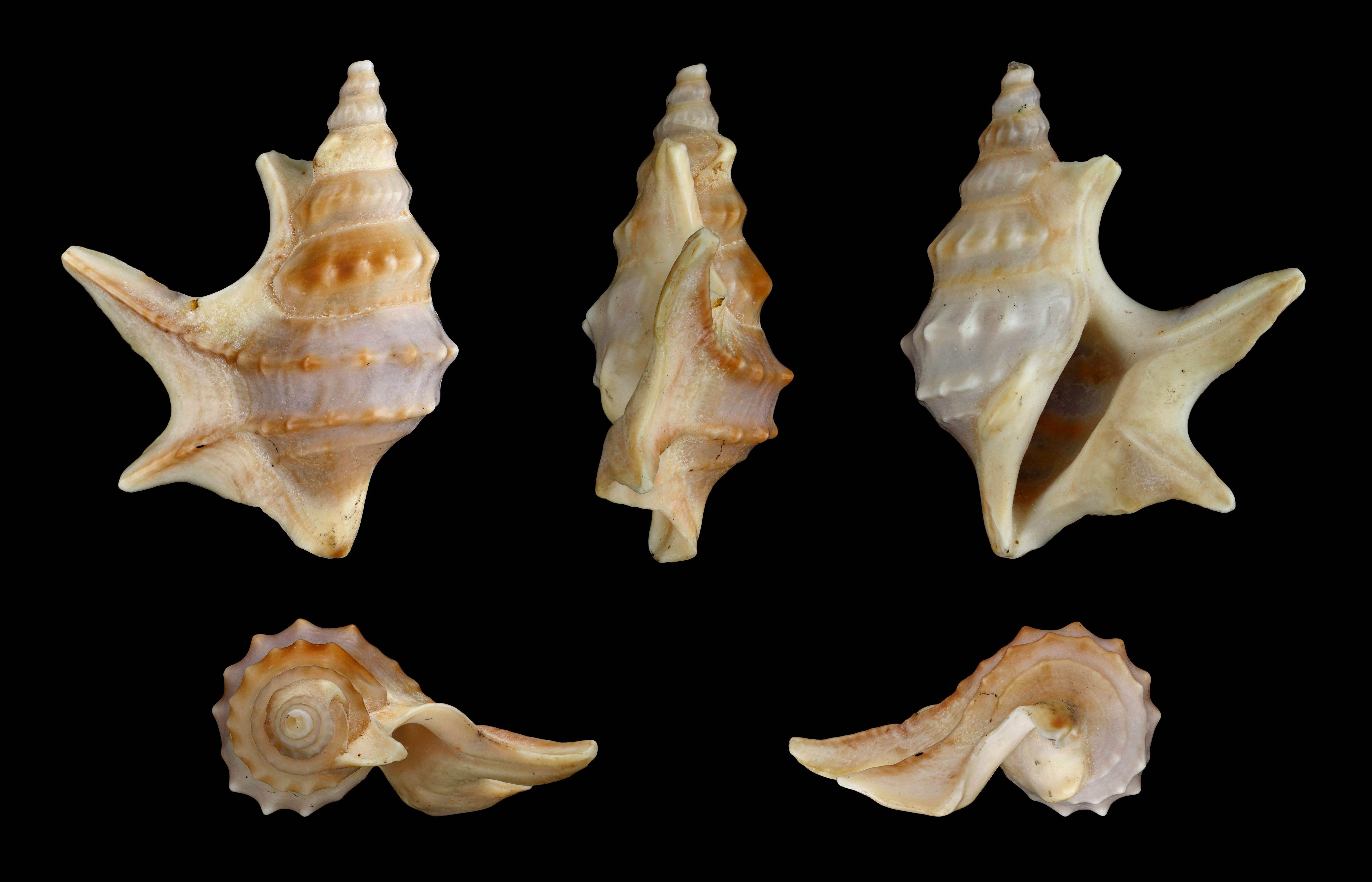 Pelican's Foot; Length 3.4 cm; Originating from the Mediterranean; Shell of own collection, therefore not geocoded. Dorsal, lateral (right side), ventral, back, and front view.